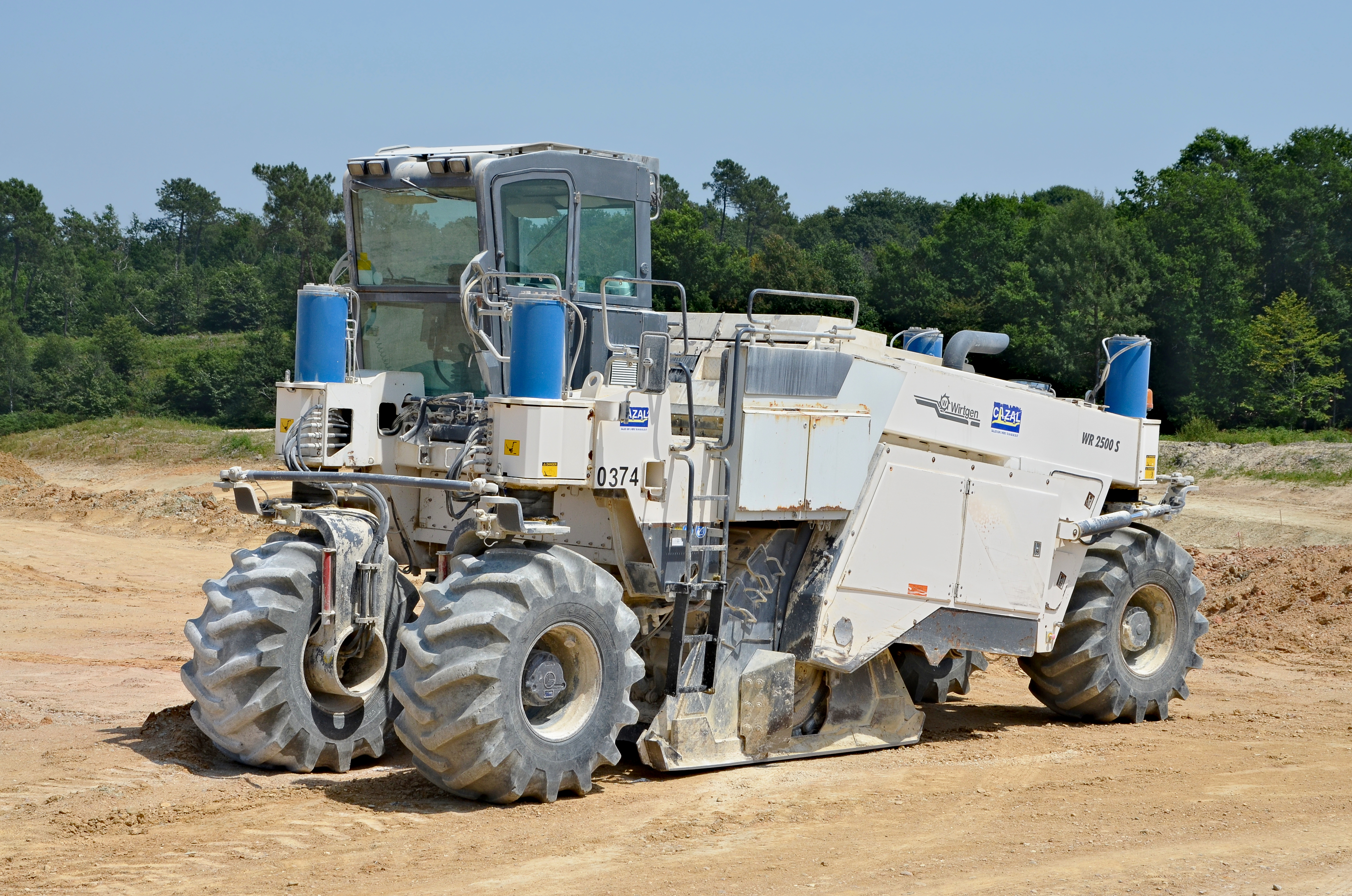 Soil stabilizer Virtgen WR 2500 S, on a site of LGV Sud Europe Atlantique construction, Poullignac, Charente France.